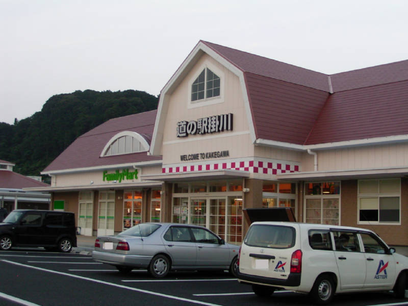 Michinoeki Kakegawa Shizuoka Japan